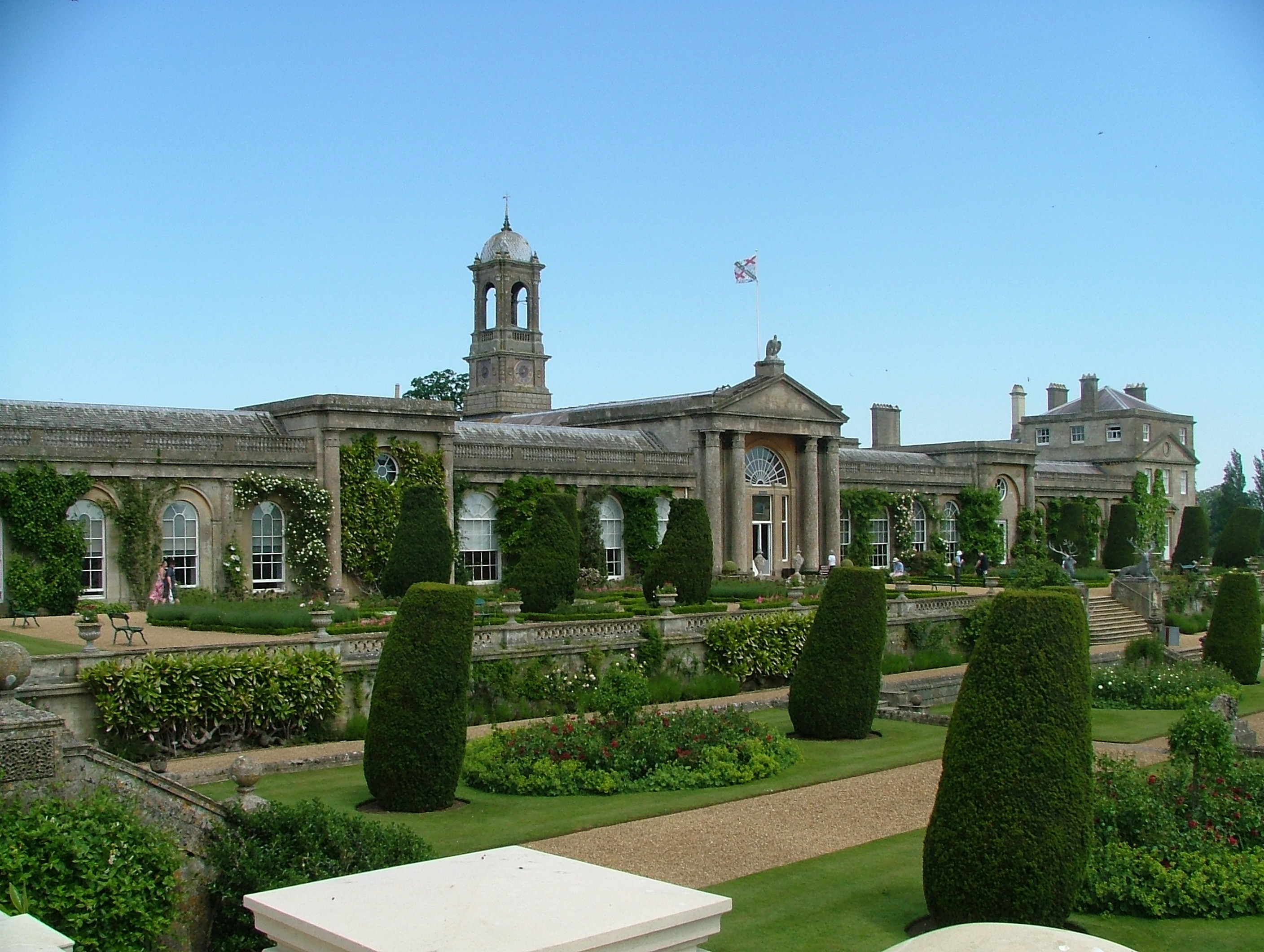 Bowood House Bowood House is the stately family home of the Marquis and Marchioness of Lansdowne. English landscape gardens designed by Lancelot "Capability" Brown. Building designed by Robert Adam in the 18th Century.